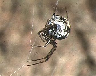 female Parasteatoda ryukyu from Okinawa.